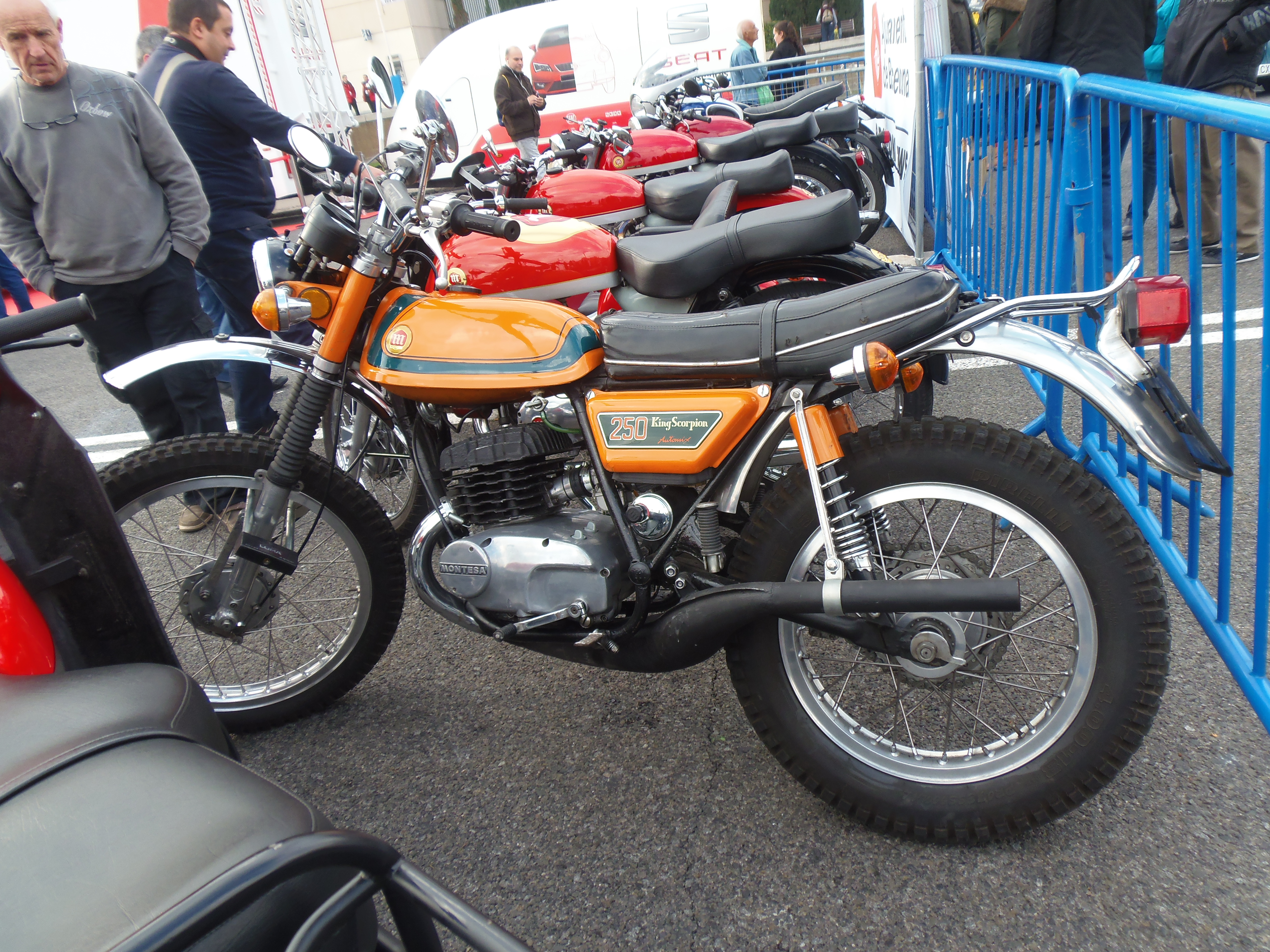 Montesa King Scorpion 250, 1972